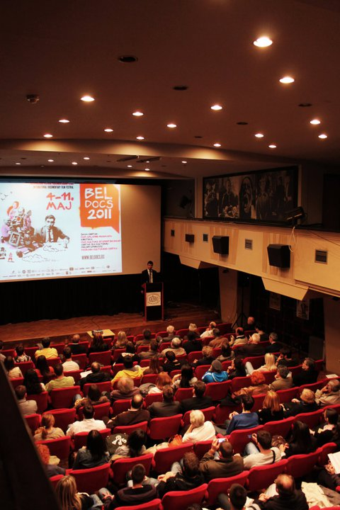 Belgrade premiere of Boris Malagurski's "The Weight of Chains" at the BELDOCS International Feature Documentary Film Festival in 2011